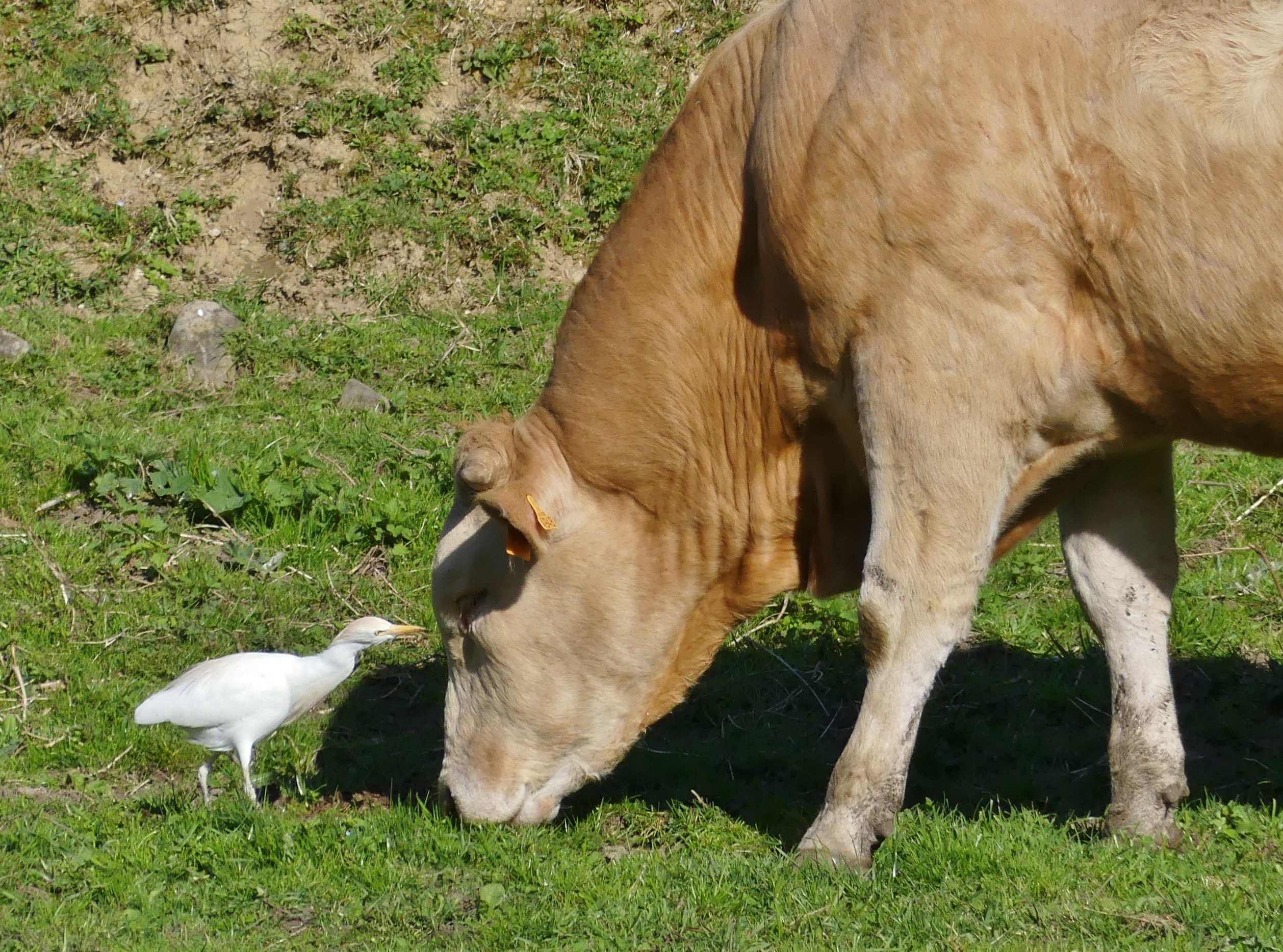 Sight of a cattle egret eating flys on the head of a bull, between Aix-les-Bains and Chambéry, in Savoie, France.